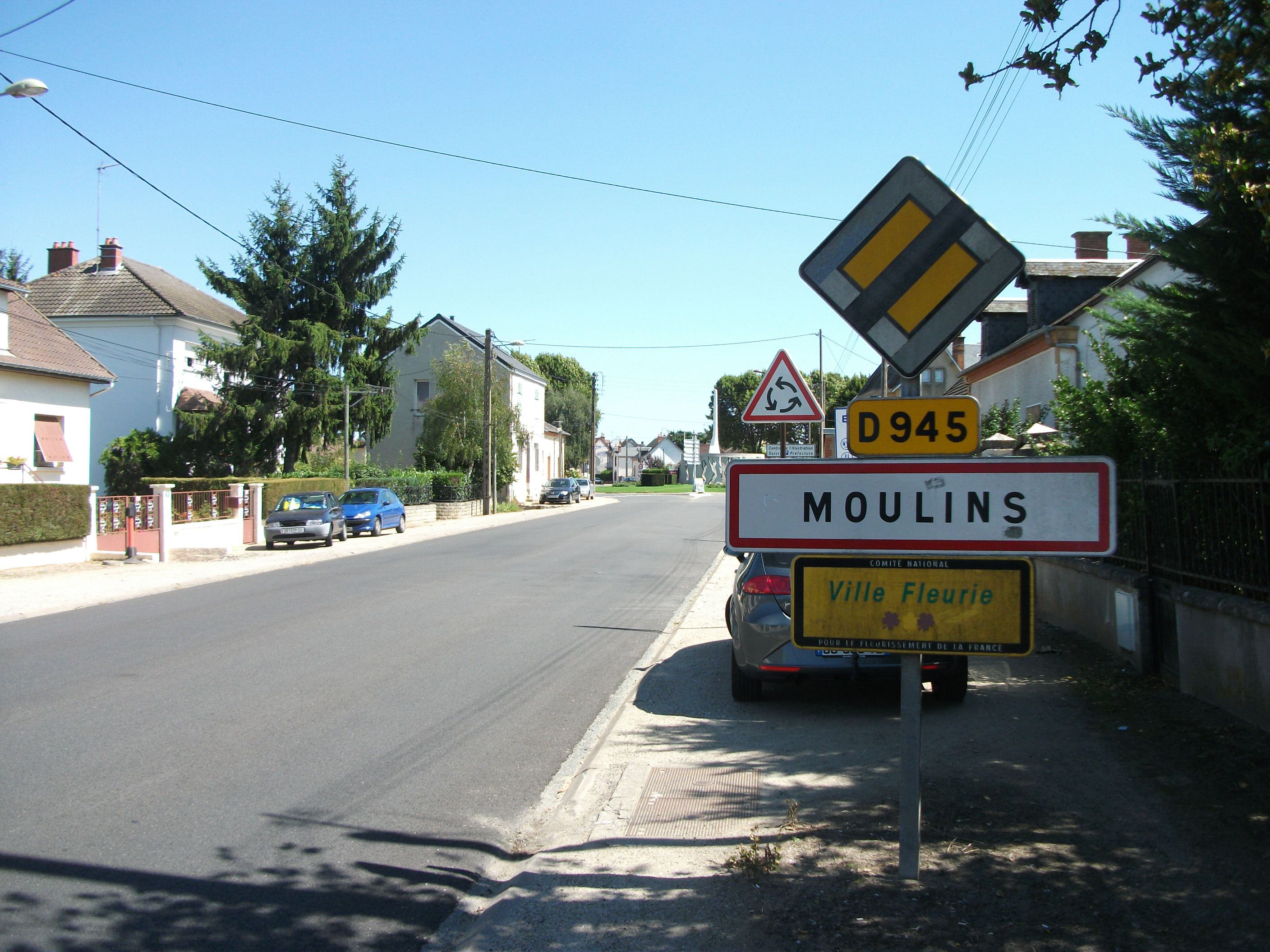 Entrance of Moulins by departmental road 945 [8839]